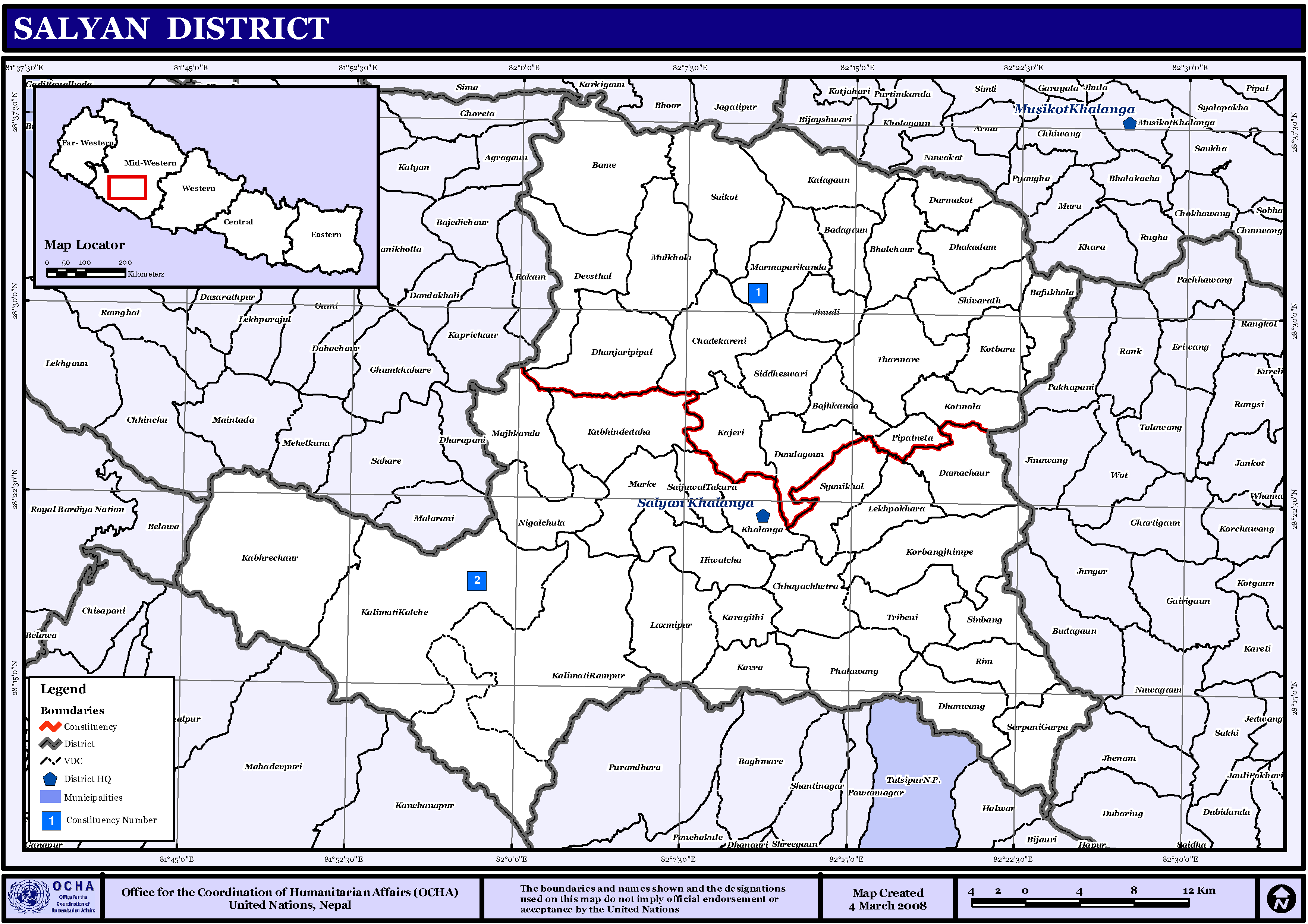 Map displaying Village Development Committees in Salyan District, Nepal